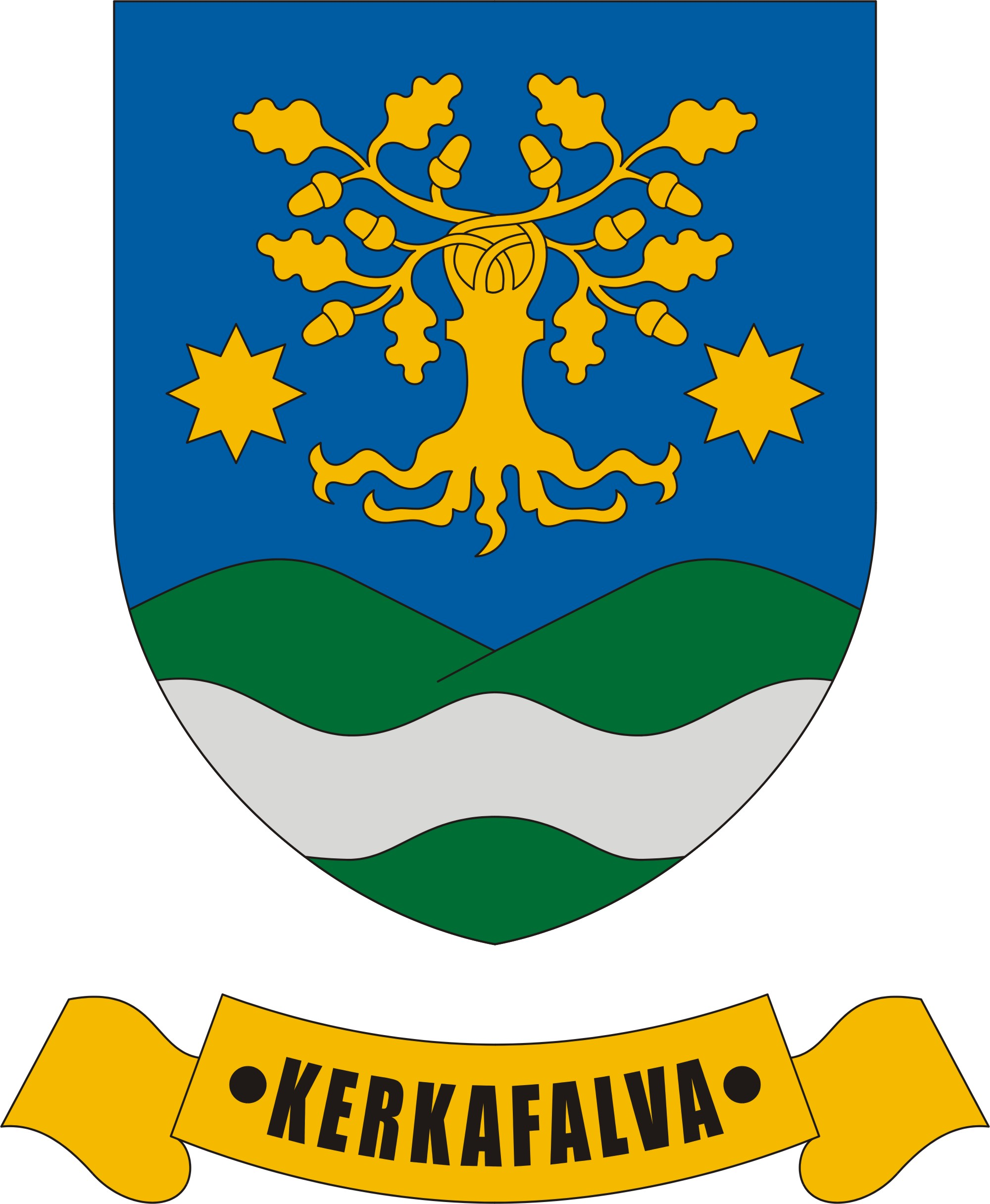 Coat of arms of Kerkafalva, Hungary